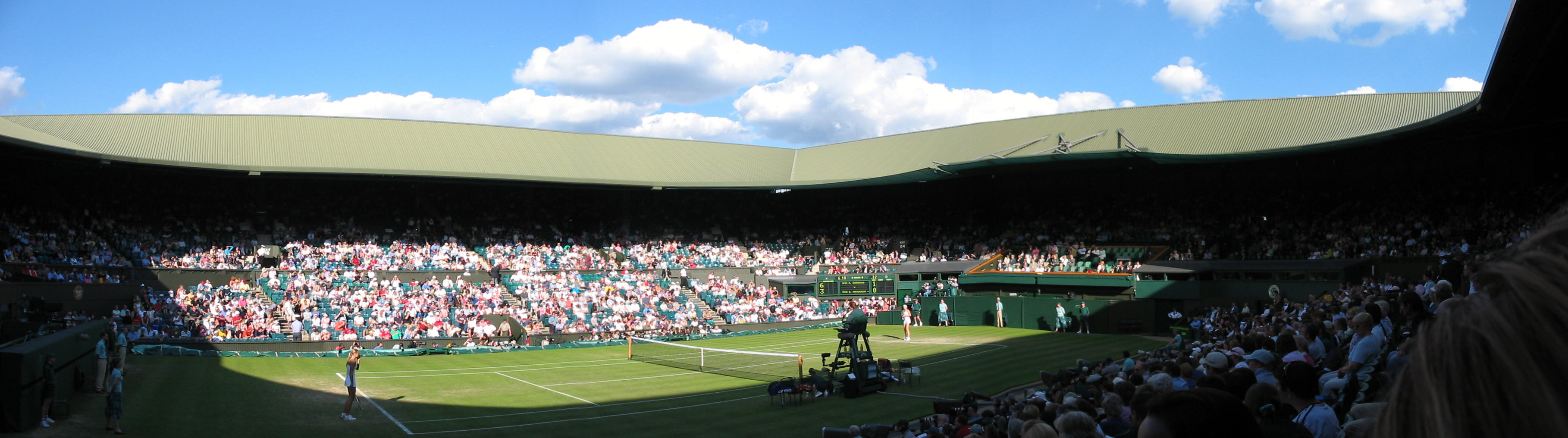 2004 - Prior to the rebuild